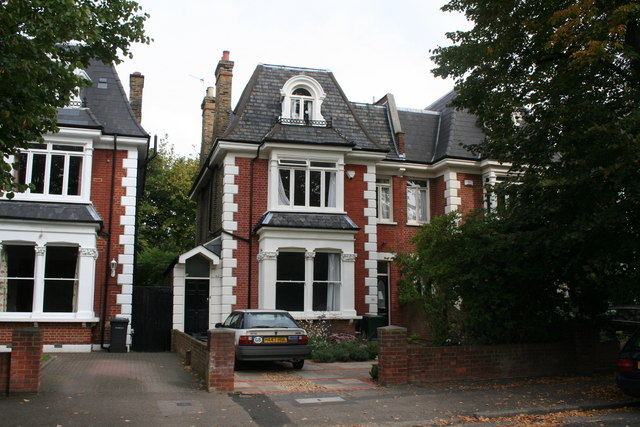 24 Micheldever Road, Lee Typical of the many fine 4-storey (3 plus basement) houses built in this area in the 1890s. Only now is it being realised that many houses built since about 1925 were of an inferior standard, with cramped rooms and low ceilings. Like many others of its type, this house is now divided into flats.